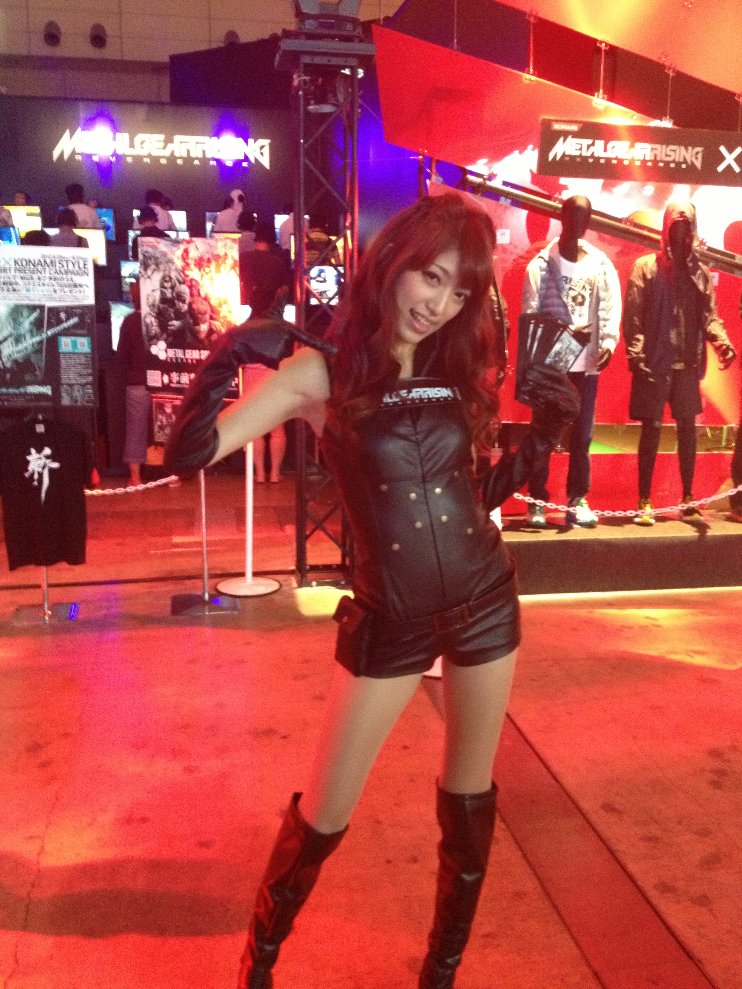 Serina Mochizuki(望月芹名) in Metal Gear Rising of Tokyo Game Show 2012. Taken on September 21, 2012.